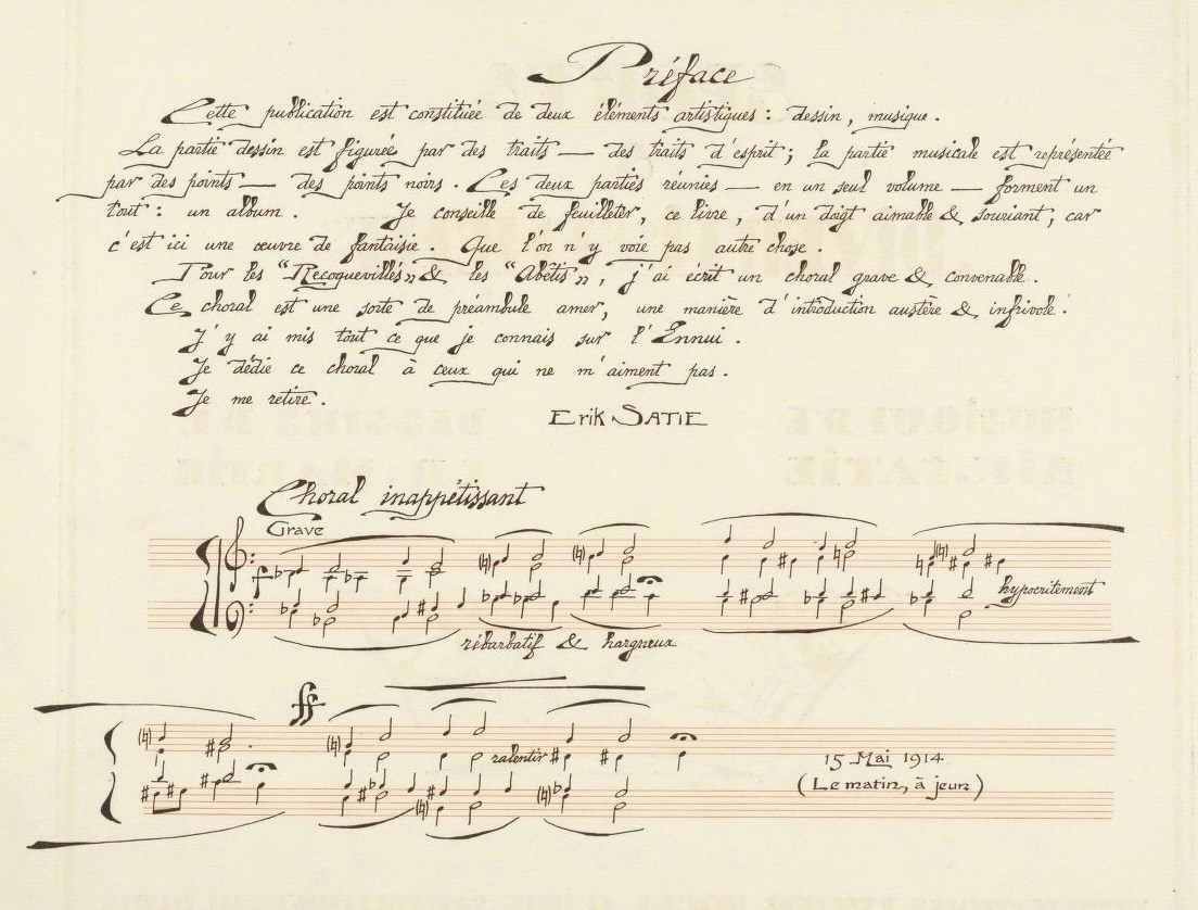 cropped version